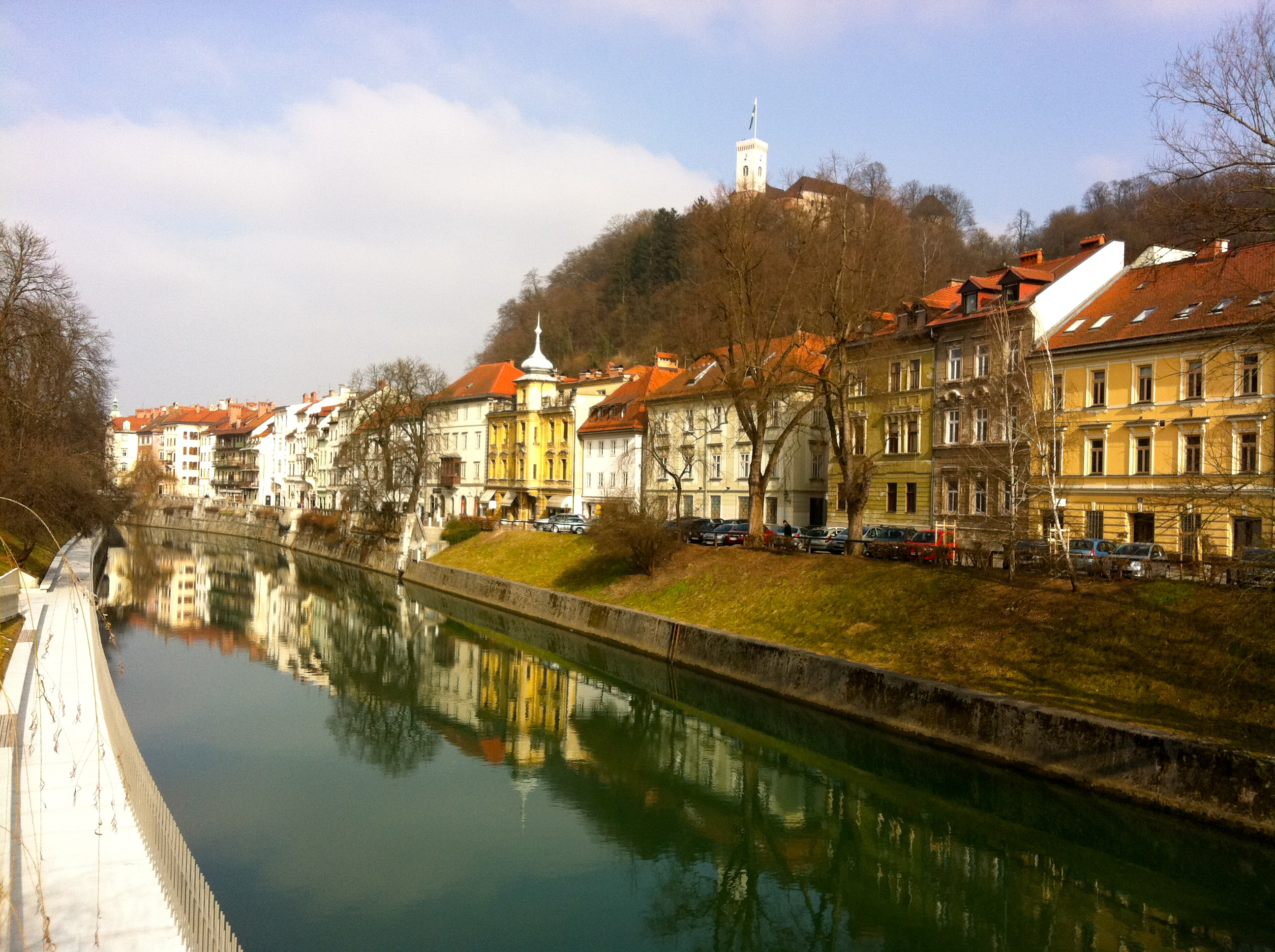 Here's a photo from the river walk looking at the river and other side of the river. Photos taken in Ljubljana, Slovenia, on February 1 and 2, 2011.